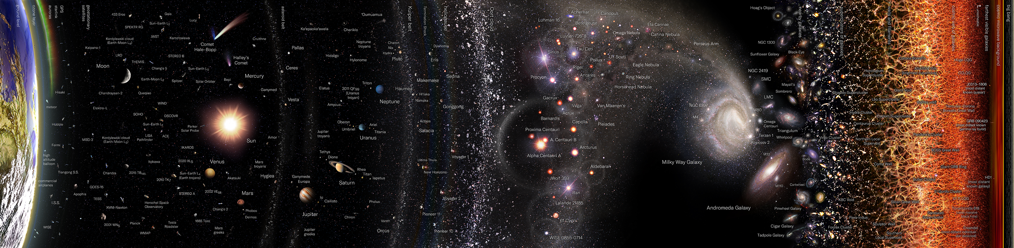 Logarithmic scheme of the observable universe with some of the notable astronomical objects known today. From left to right the celestial bodies are arranged according to their proximity to Earth. In the left border, Earth and near-Earth objects are depicted. In the right border, the most distant observed objects are depicted including GRBs, quasars, supercluster of galaxies and the cosmic microwave background radiation. Celestial bodies appear with enlarged size to appreciate their shape.